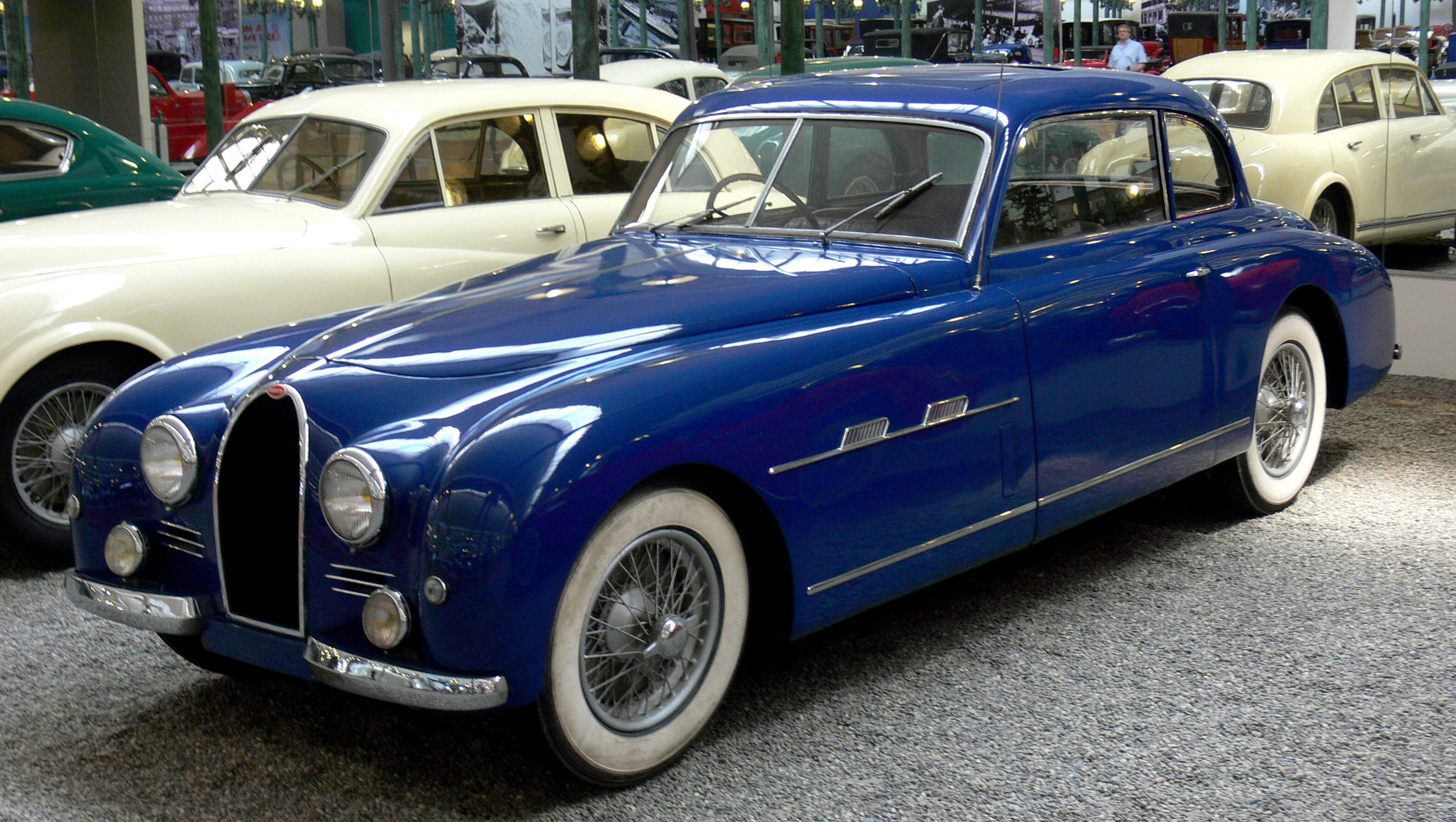 Bugatti Type 57 Coach #57454; rebodied 1952 by Gangloff (Colmar) in the style of their cabriolet coachwork on Type 101 chassis. Car is in the Musée National de l'Automobile (Mulhouse)